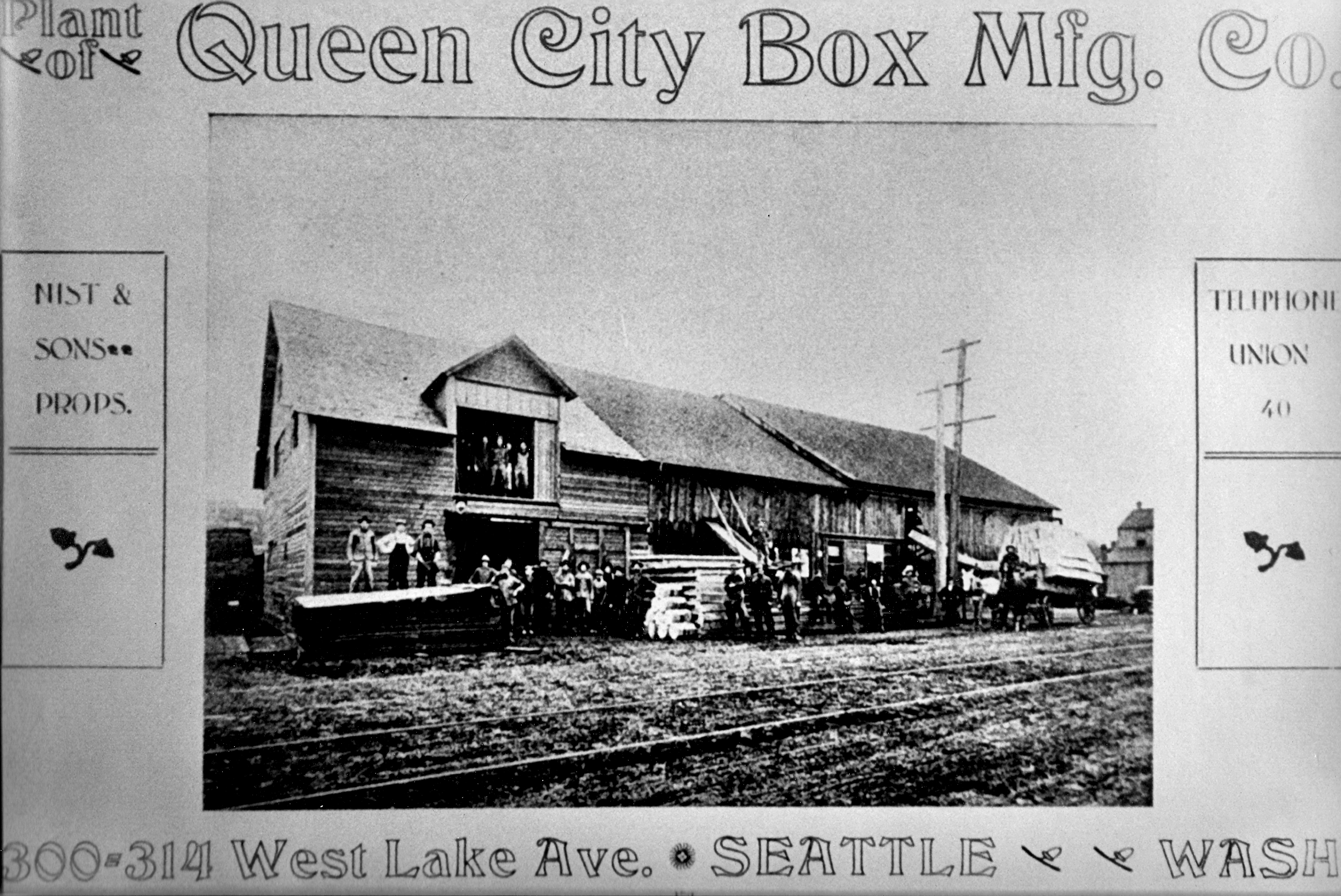 Photo of Queen City Manufacturing